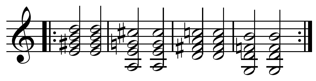 Jazz standard bridge, ragtime progression: E7-A7-D7-G7, III7-VI7-II7-V7, or V7/V/V/V - V7/V/V - V7/V - V7 [or V7/vi - V7/ii - V7/V - V7].